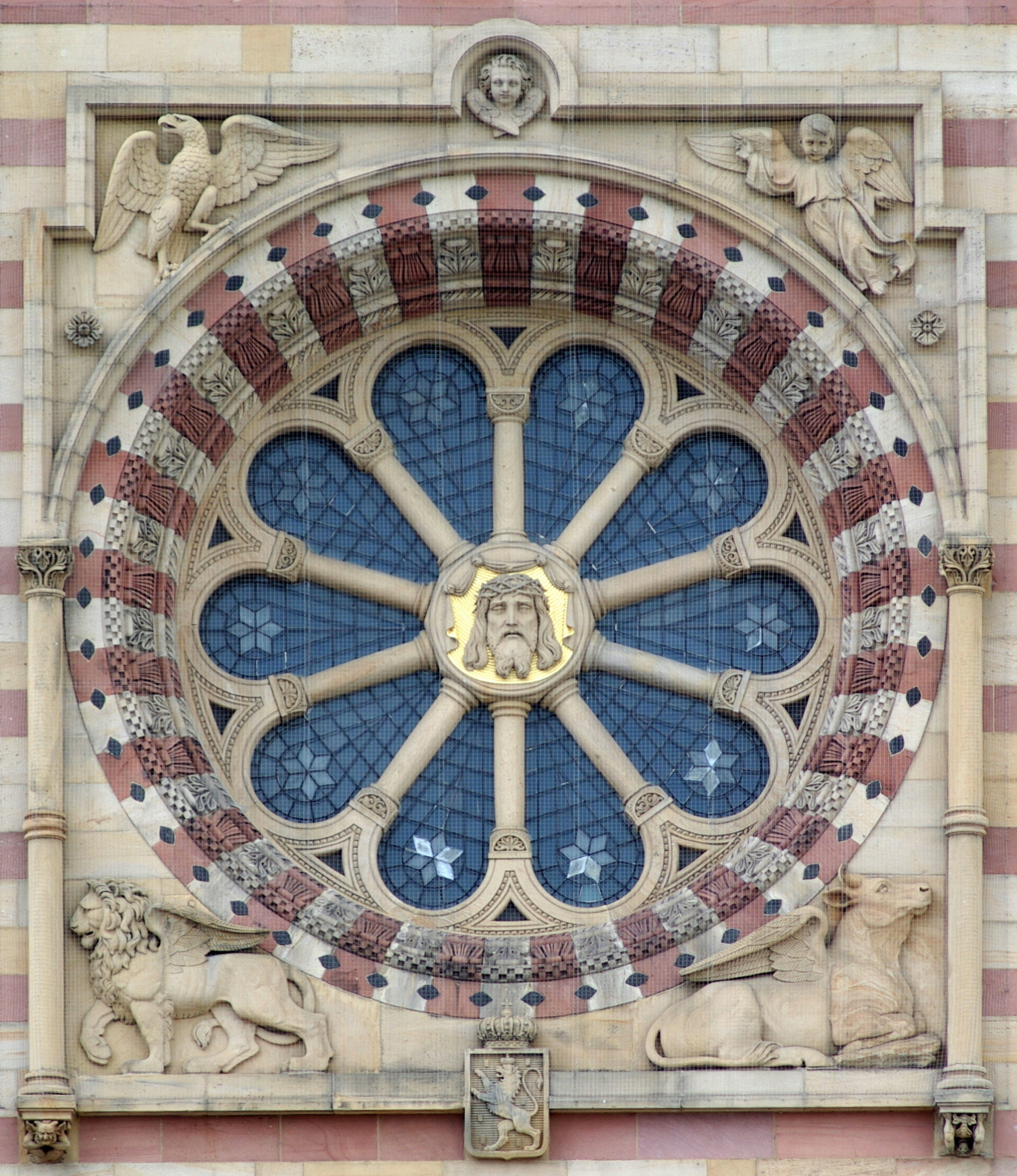 Germany, Rose window at the cathedral of Speyer